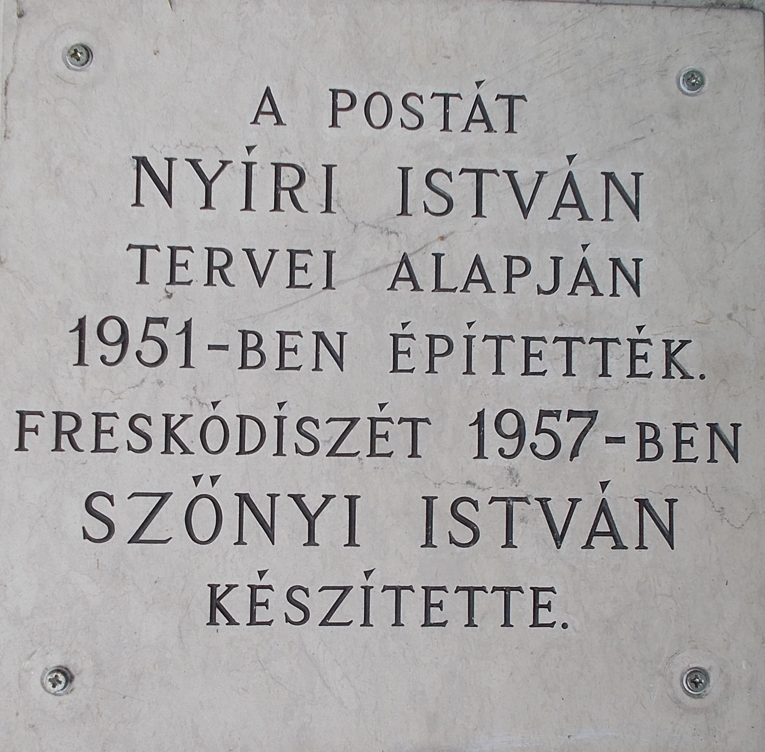 Budapest Csepel 1 post office, plaque. - 22 Szent Imre Square, Budapest District XXI., Budapest.